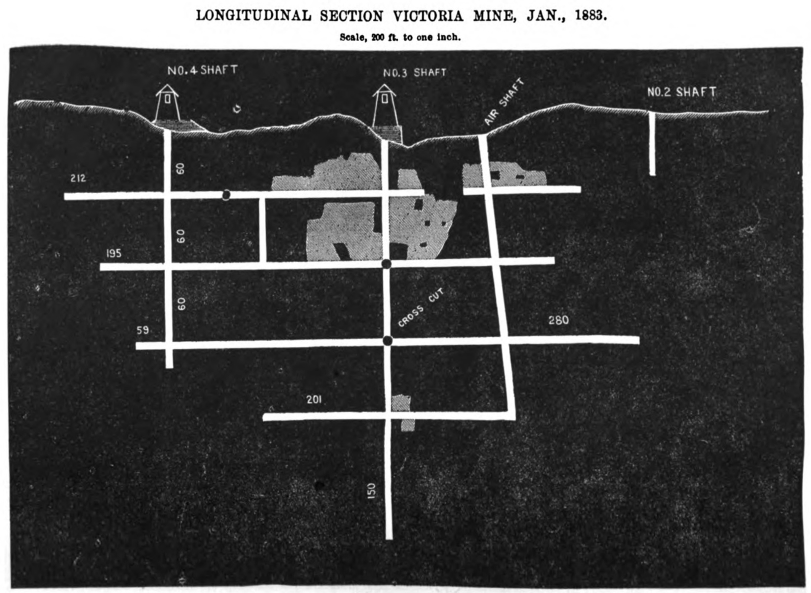 Victoria copper mine shafts and adits, Michigan, in 1883.